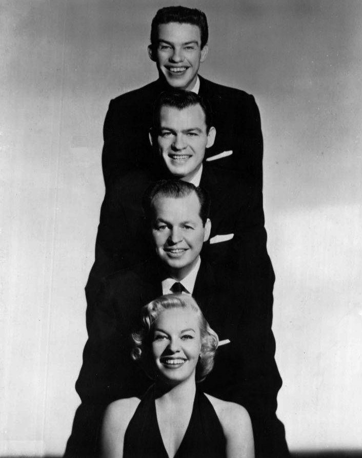 Photo of the Morgans from a 1959 appearance on the Jimmy Dean Show. While Jaye P. Morgan was the most prominent of the group, she had three brothers who were also singers. From top: Dick Morgan, Duke Morgan, Charlie Morgan and sister Jaye P. Morgan.